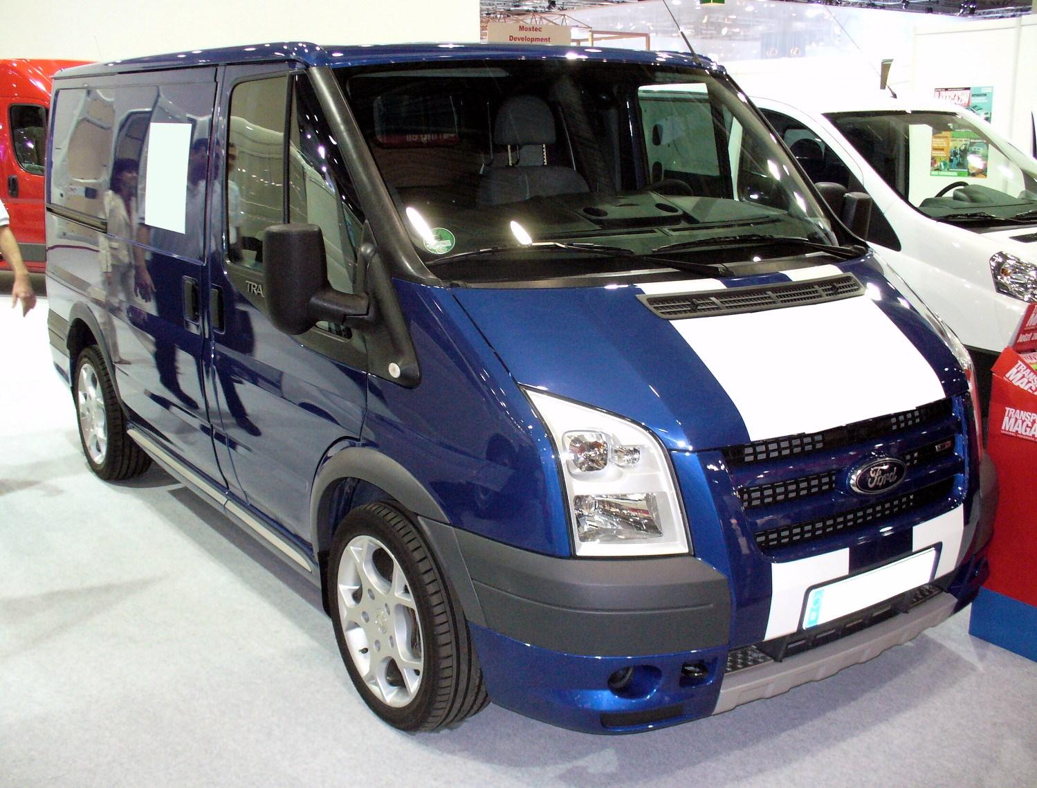 Ford Transit Sport